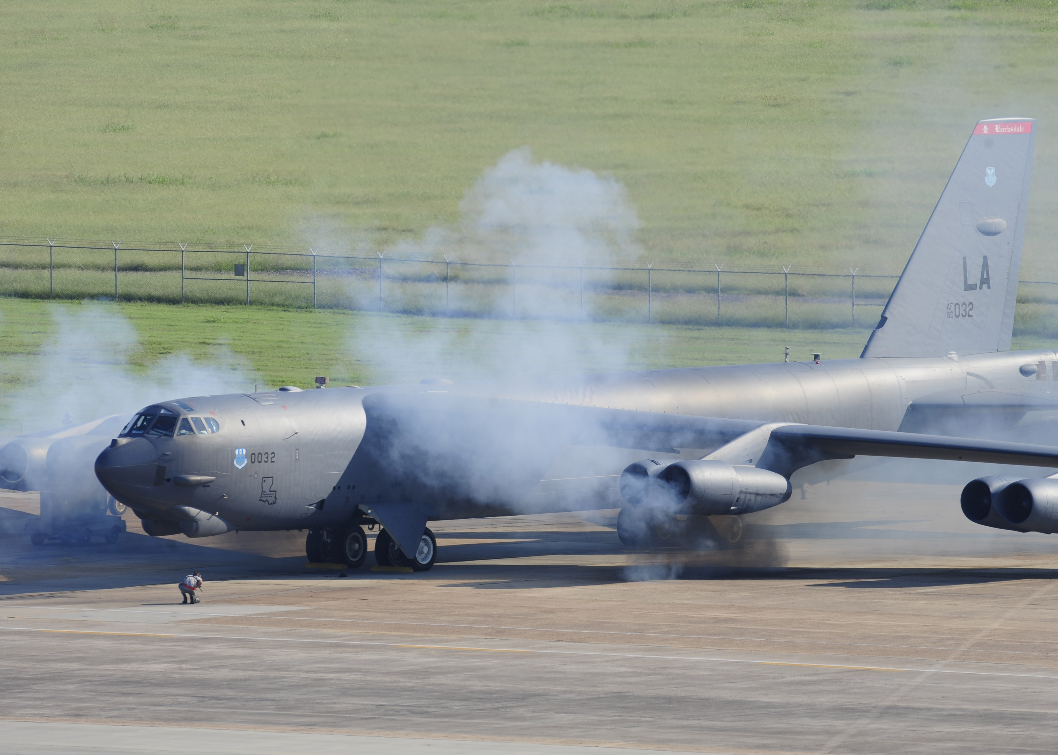 A B-52H Stratofortress starts its engines during a Minimum Interval Takeoff on Barksdale Air Force Base, La., Aug. 14, 2014. Common place during the Cold War, a MITO challenges crews to get multiple aircraft airborne as quickly as possible in response to an alert call. (U.S. Air Force photo/Staff Sgt. Sean Martin)